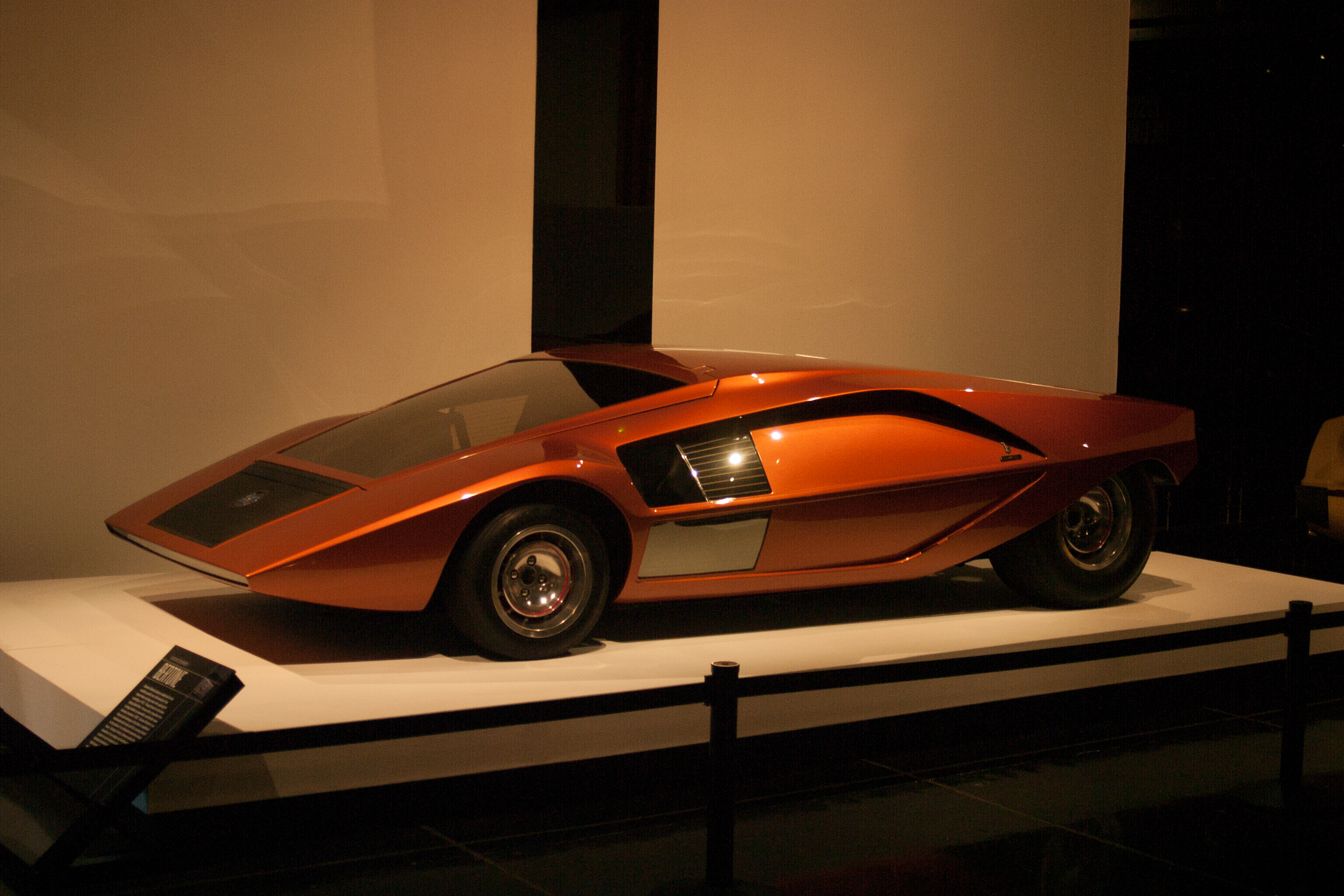 Lancia Stratos Zero on display at the Petersen Automotive Museum.